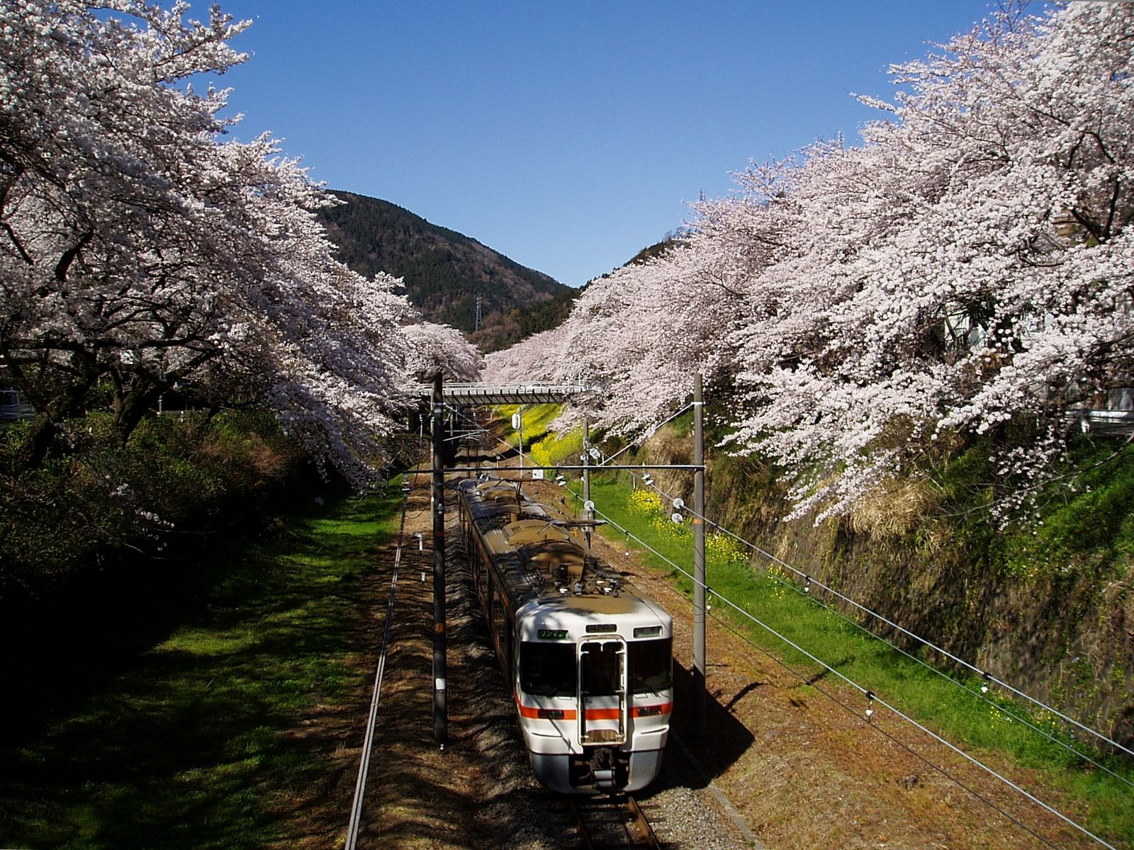 Central Japan Railway Company, EMU Type 313 Between Yamakita Sta. and Yaga Sta.